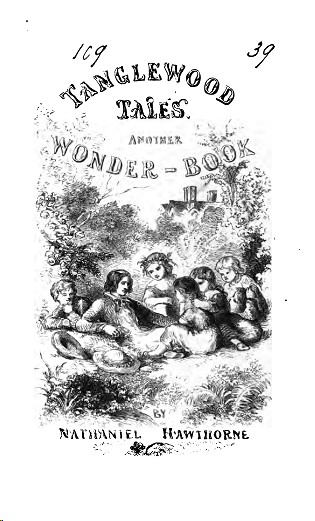 Cover page of Tanglewood Tales for Girls and Boys: Being a Second Wonderbook